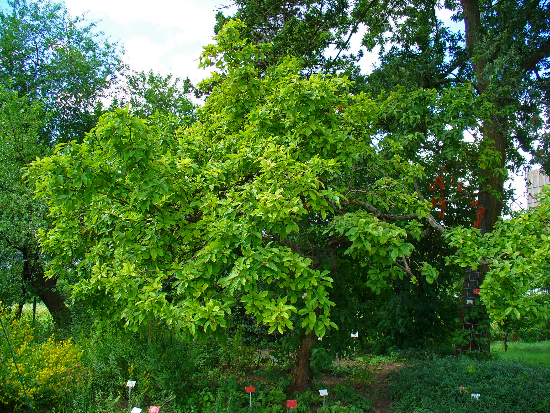 Common Medlar, habitus; Botanical Garden KIT, Karlsruhe, Germany.